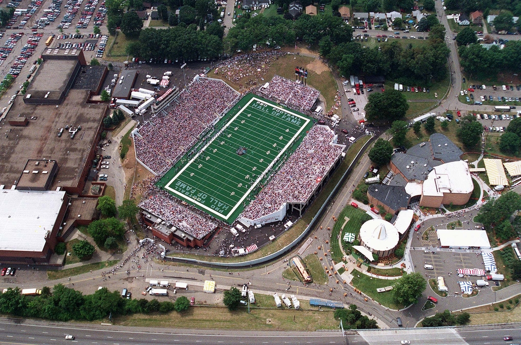 An aeriel view of the Pro Football Hall of Fame Stadium in Canton, Ohio during gameday in August, 1997. This was the last daytime game played at the stadium. This year the Cleveland Browns will return to the NFL with their preview Monday night August 9, 1999. (Photo/Paul M. Walsh)